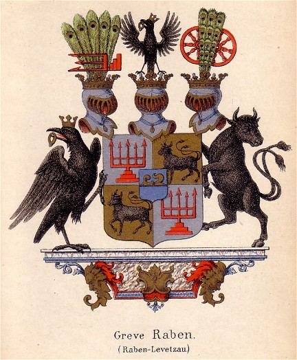 Coat of arms of the Raben-Levetzau family